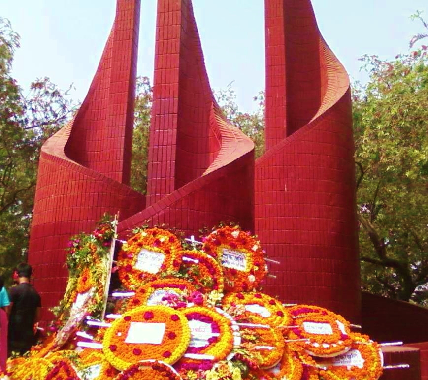 This is the monument of the martyrs of the liberation war, Brahmanbaria, Bangladesh.